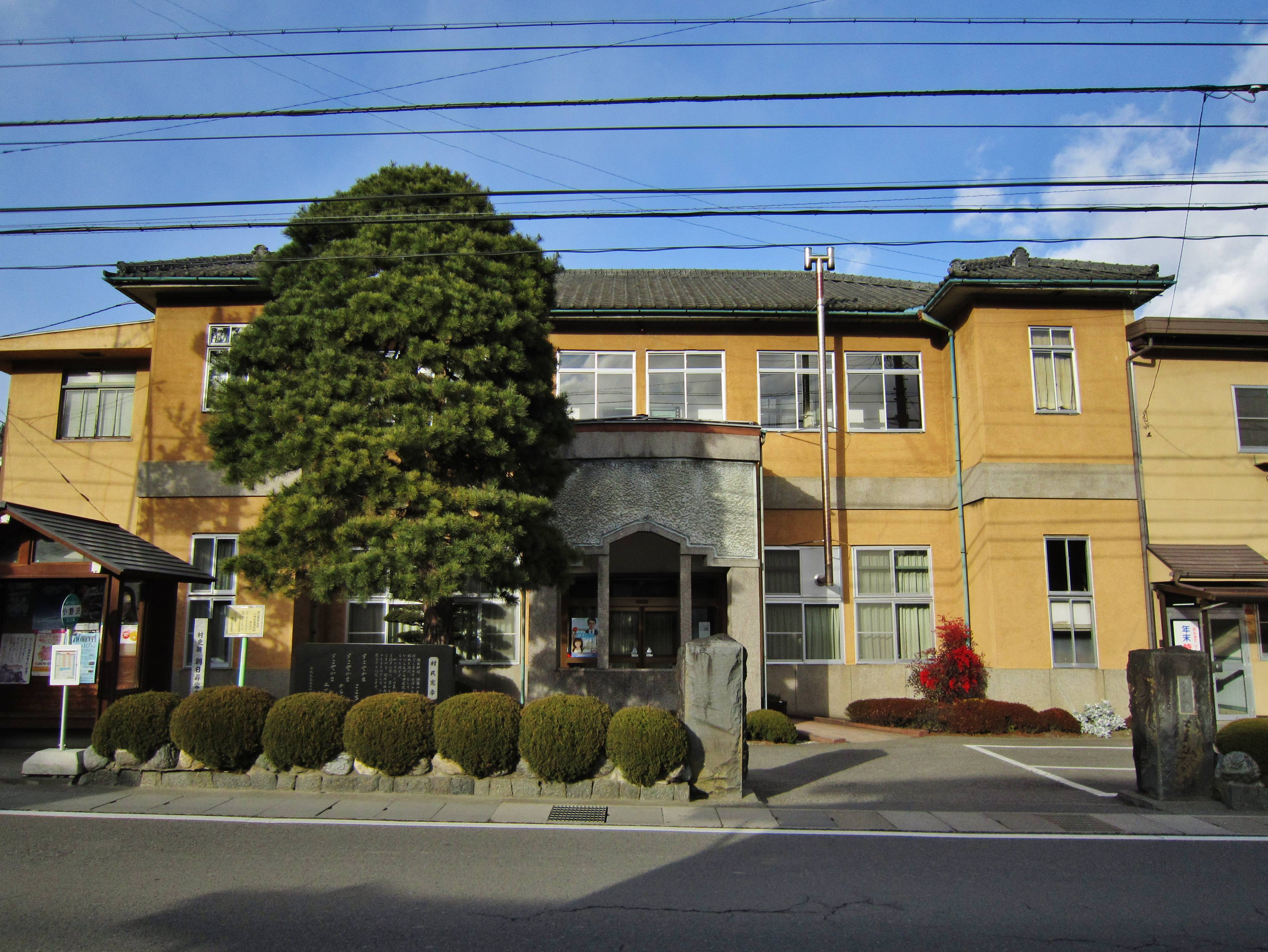 Asahi village office.